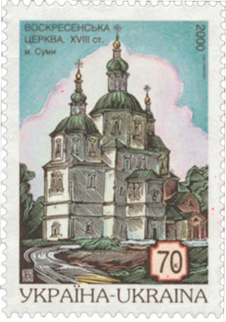 Stamp of Ukraine